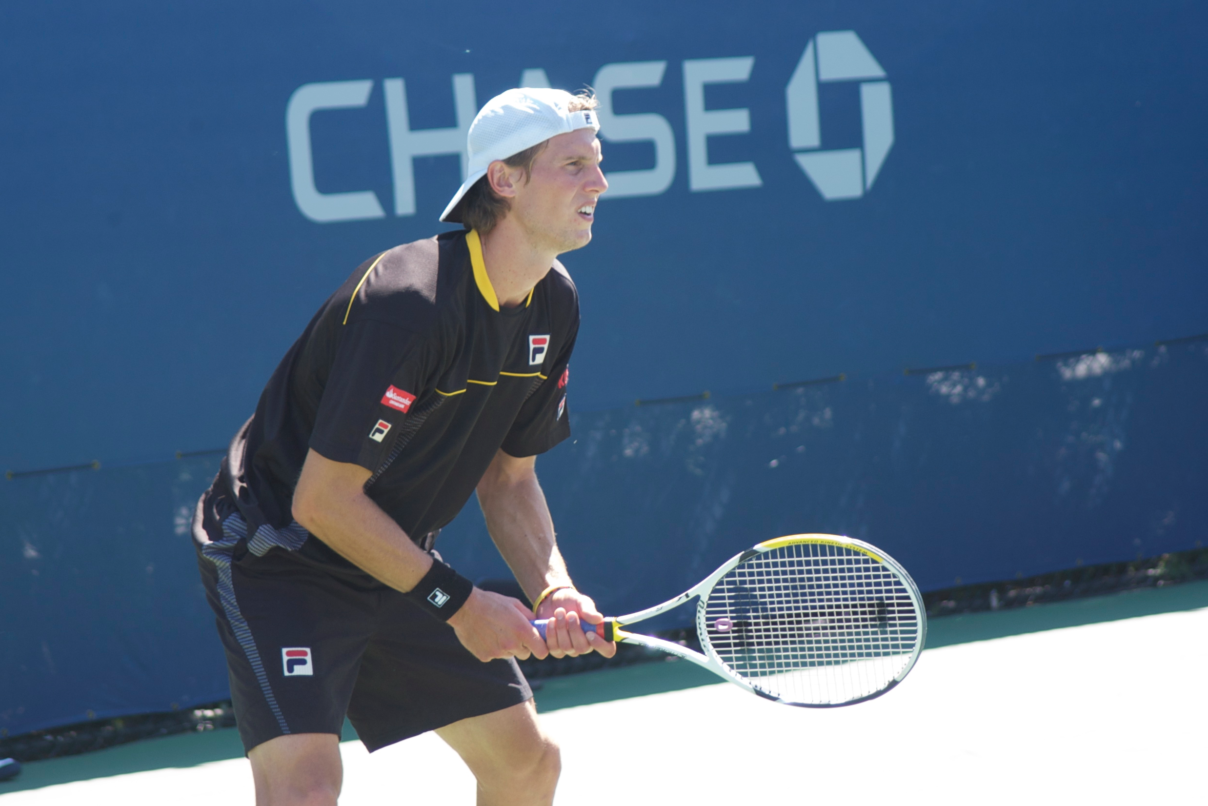 Andreas Seppi at the en:2008 us open tennis in Flushing Meadows, New York